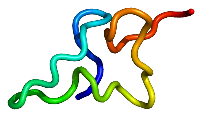 Structure of the THBD protein. Based on PyMOL rendering of PDB 1adx.